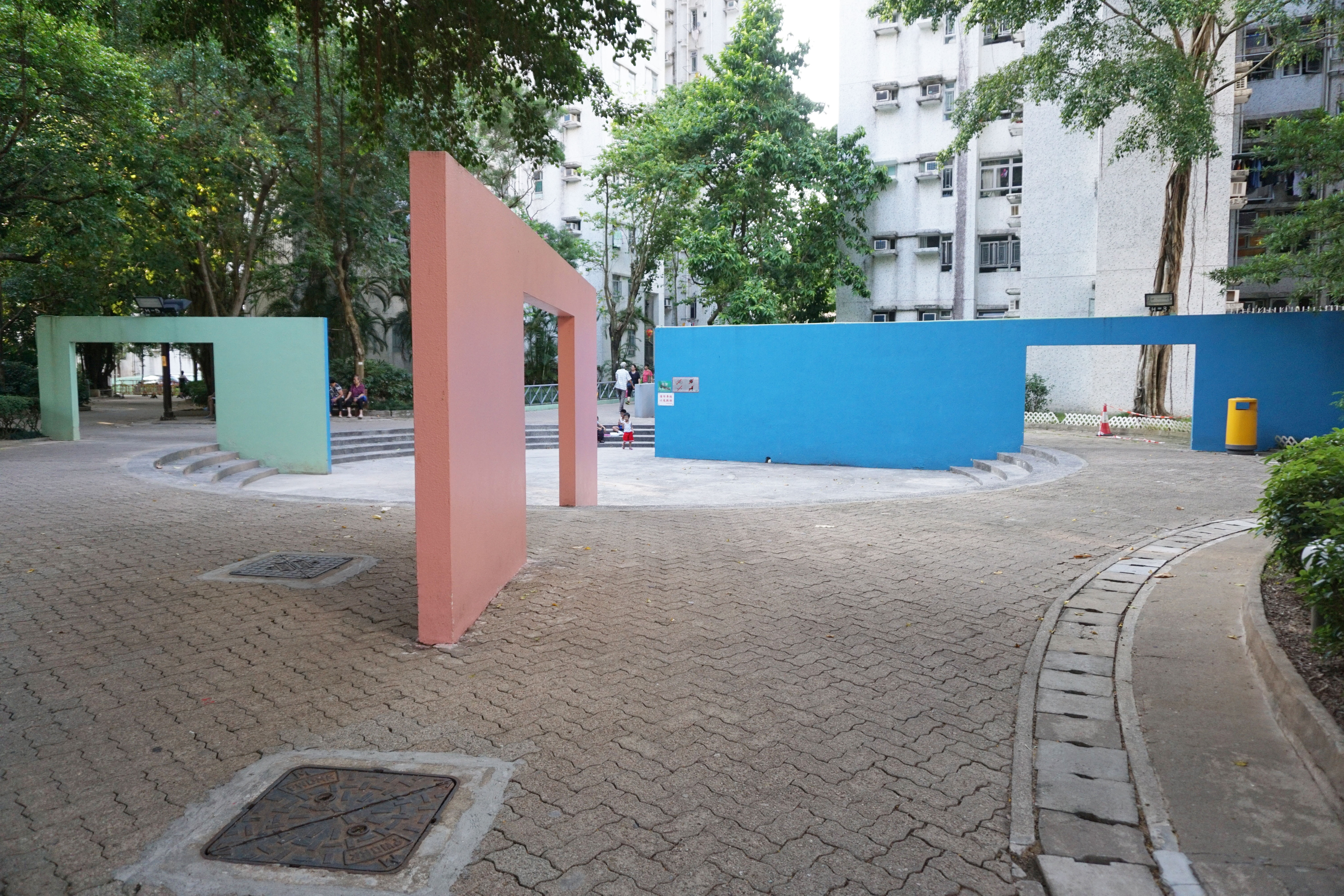 Chevalier Garden in Tai Shui Hang, Hong Kong.